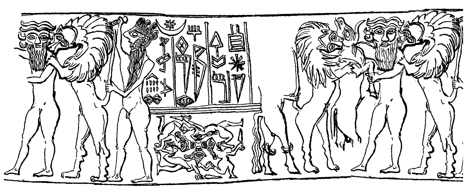 Mesannepada seal drawing